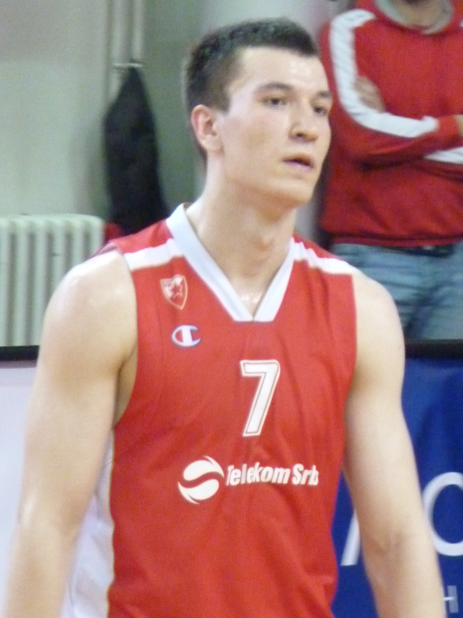 Aleksadar Aranitović, basketball player of Red Star Belgrade